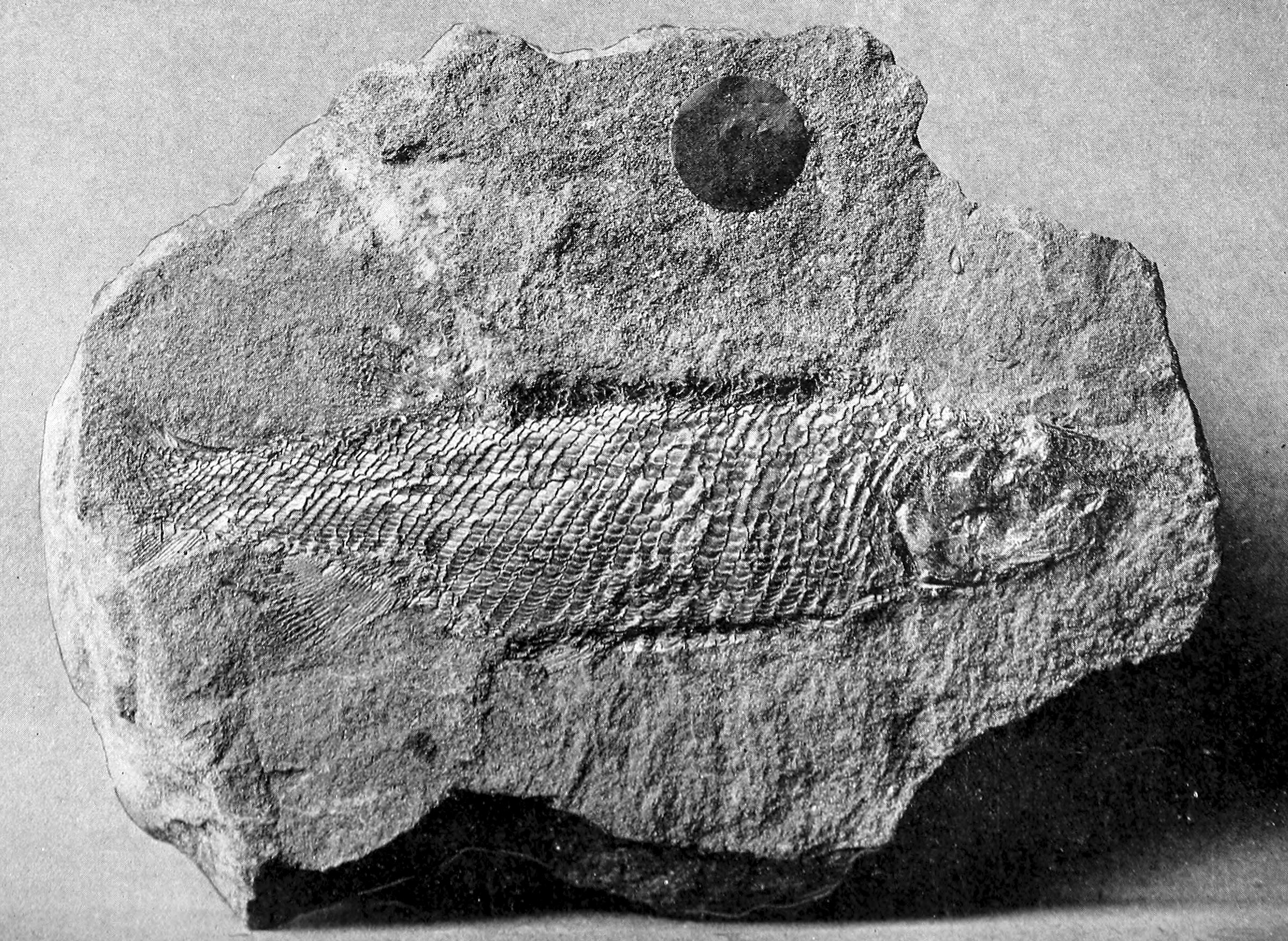 Original plate caption:Catopterus gracilis (Redf.). Natural size.Specimen of less than the average size, but with well preserved squamation,from the Connecticut Valley Trias. Original belonging to the Museum ofComparative Zoology, at Cambridge, Massachusetts.Additional notes: Current combination of this taxon’s name is Redfieldius gracilis, with Redfieldius Hay 1899 being a replacement name for Catopterus J. H. Redfield 1837 that is preoccupied by Catopterus Agassiz 1833, a junior synonym of the lungfish genus Dipterus (cf. Schaeffer & McDonald, 1978:134, Bull. AMNH 159). Also, the beds in eastern North America in which fishes of the genus Redfieldius occur are no longer considered to be of Triassic age but now are regarded to be Lower Jurassic in age (op. cit.).